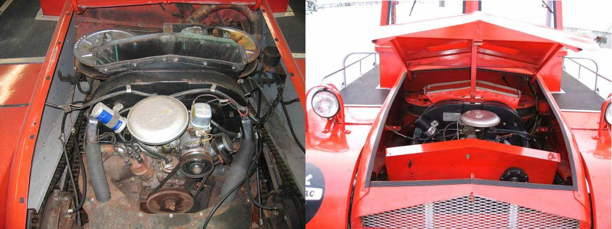 Left side image shows the Snow Trac's VW engine with a horizontal heat shield in front of the engine over the muffler to prevent muffler heat from overheating the engine. Right side image shows VW engine obscured behind a vertical heat shield that divides the engine compartment into a front section and a rear section. This type of heat shield seems to have been common on the Royal Marines/NATO Snow Trac models and may also have been used in some civilian versions.